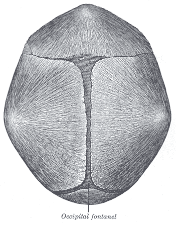 The skull at birth Human skull with Trigonocephaly